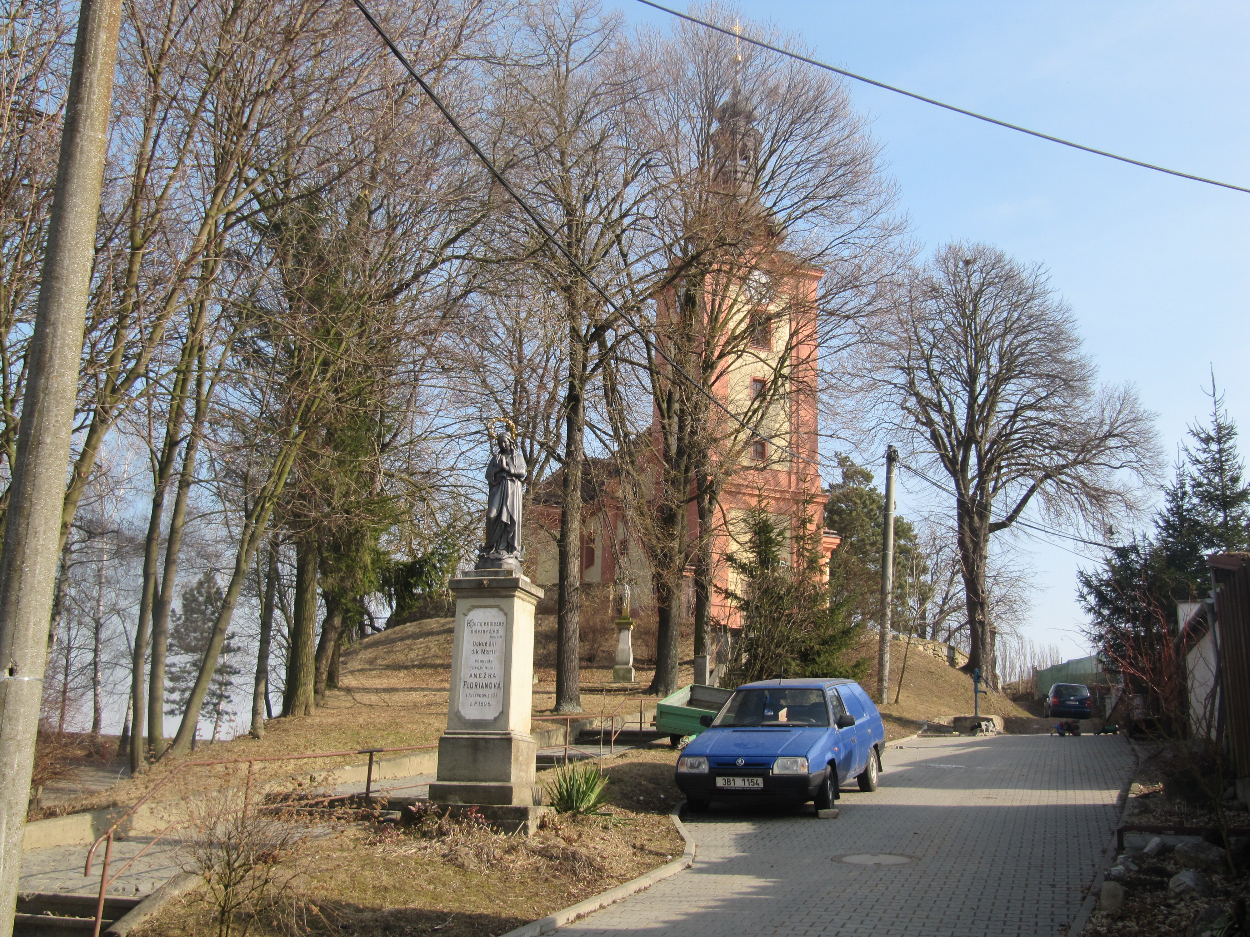 Křižanovice in Vyškov District, Czech Republic. Church from 18-th century.